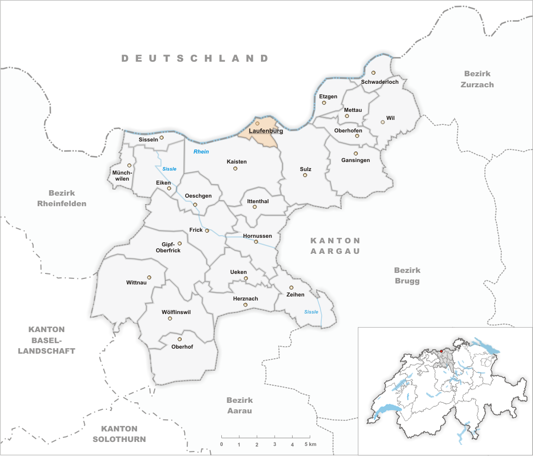 Municipality Laufenburg